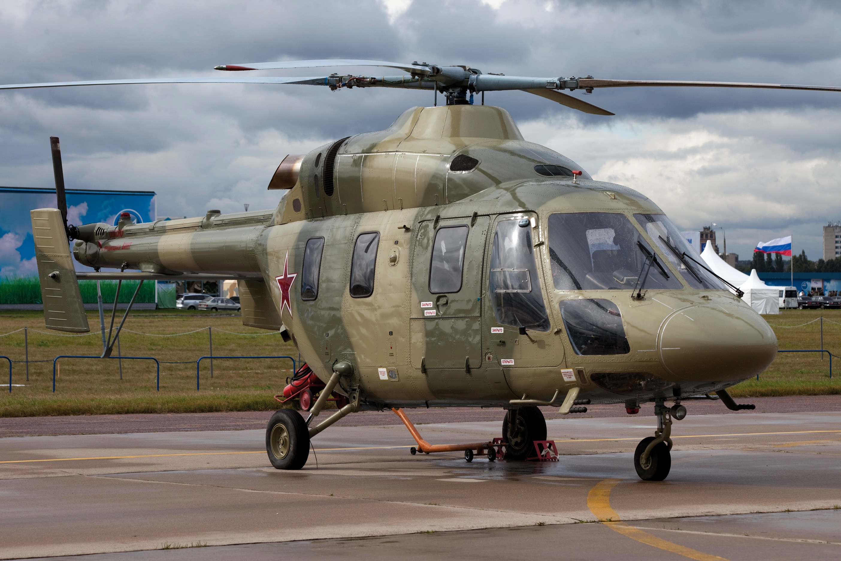 Kazan Ansat-U helicopter at MAKS 2009.